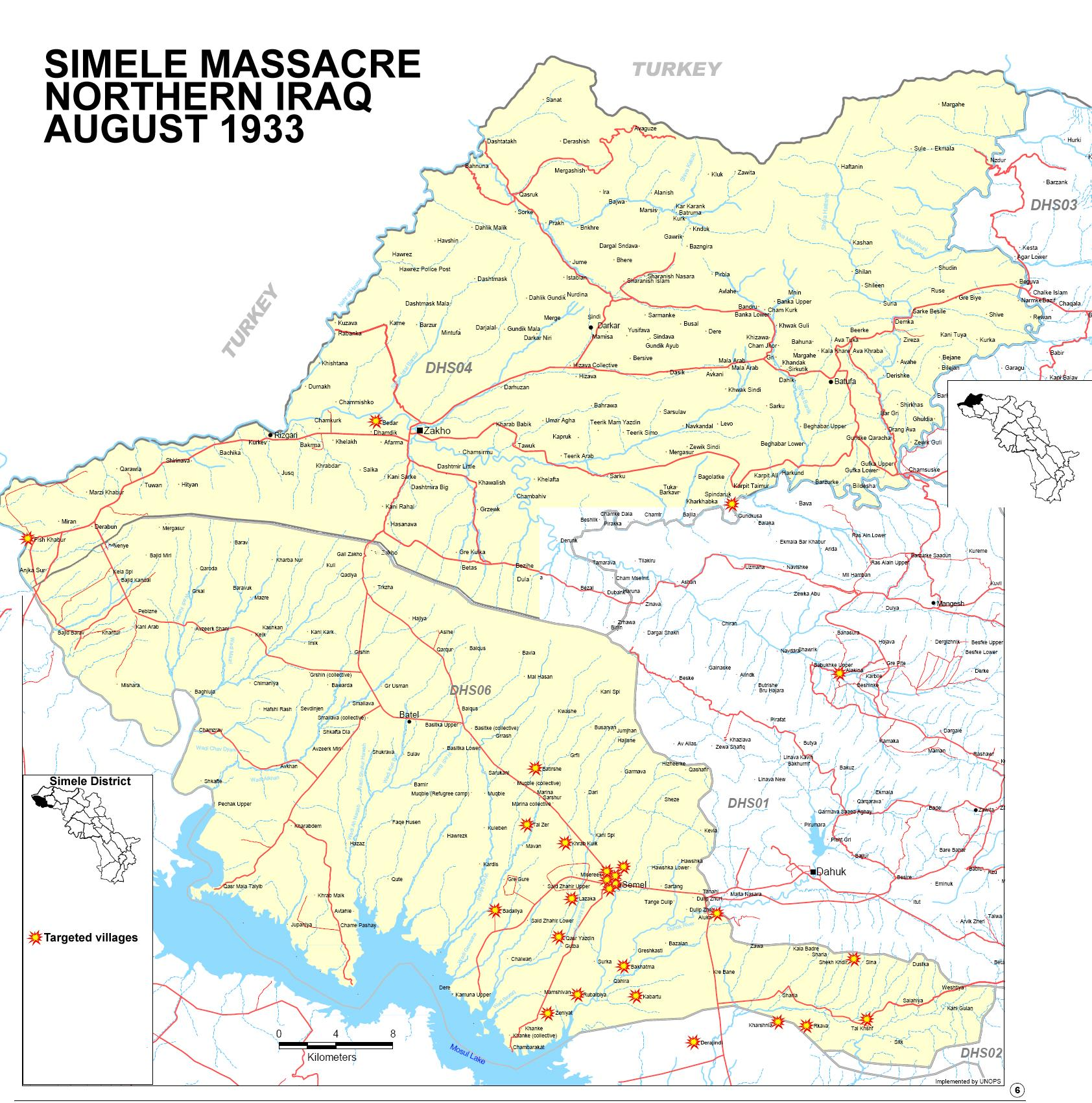 The Simele Massacre targets. Note, this map is only showing 21 villages targeted. Another 42 villages were destroyed as well. The villages not shown in this map: Baderden, Bagerey, , Bameri, Barcawra, Baroshkey, Basorik, Bastikey, Benaringee, Betafrey, Biswaya, Carbeli, Chem Jehaney, Dairke, Dair Kishnik, Garvaly, Gereban, Gond Naze, Harkonda, Idleb, , Karpel, Karshen, Kaserezden, Kerry , Kitba, Khalata, Korekavana, Kowashey, Mawani, , Mansouriya, Majel Makhte, Sar Shorey, Sezary, Sidzari, and Suchuri.